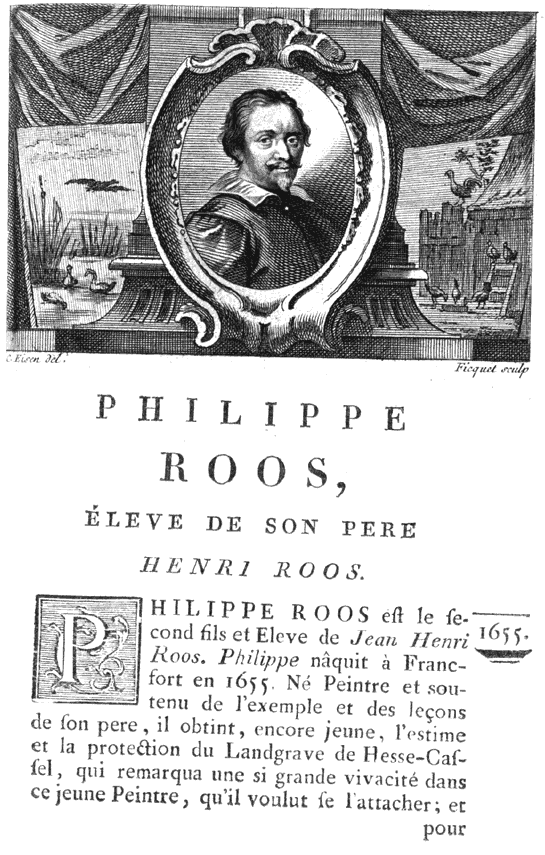 Book 3 of 4-volume painter biographies by Jean-Baptiste Descamps